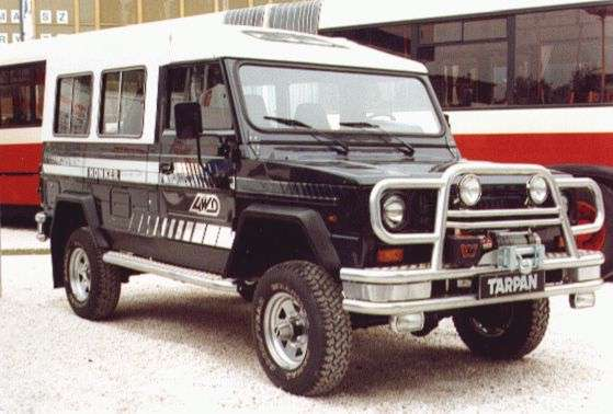 Foto taken at Poznan International Fair in 90's. Polish made off-road Tarpan Honker long wheel base.